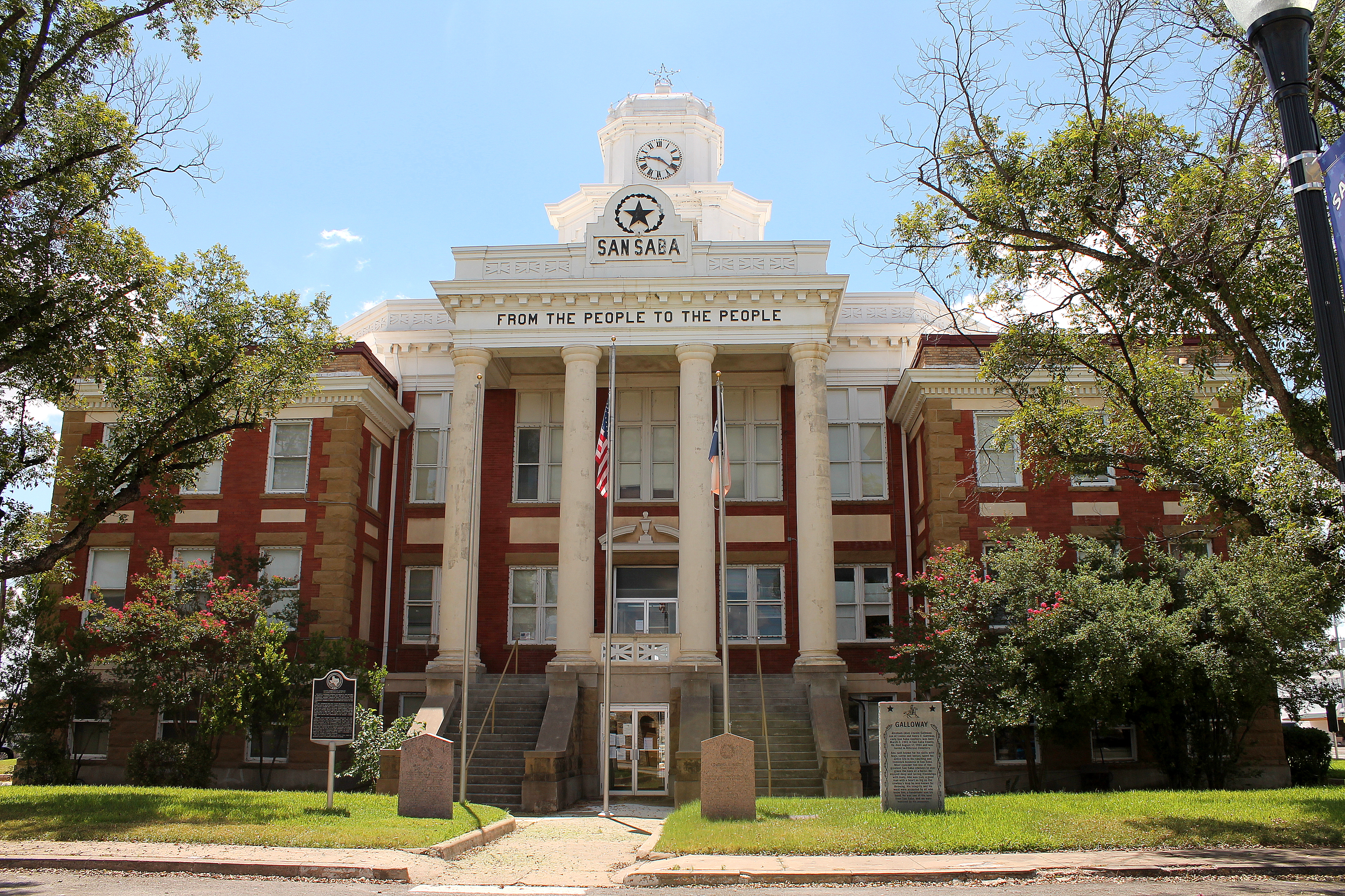 San Saba Courthouse. The courthouse was listed on the National Register of Historic Places on May 1, 2003 and designated a Recorded Texas Historic Landmark in 2004.